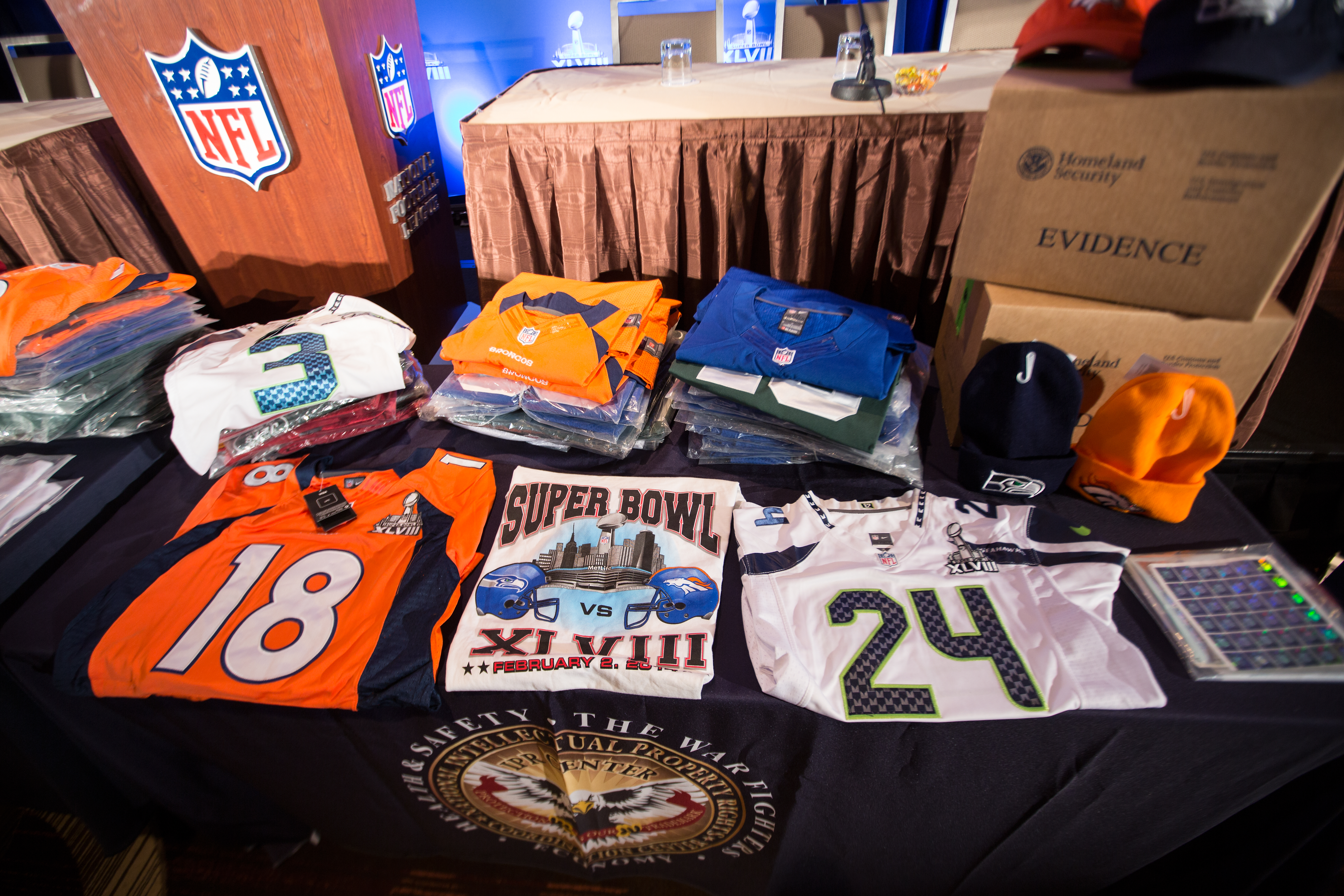 Counterfeit NFL merchandise was put out of the IPR Press Conference. Photographer: Josh Denmark